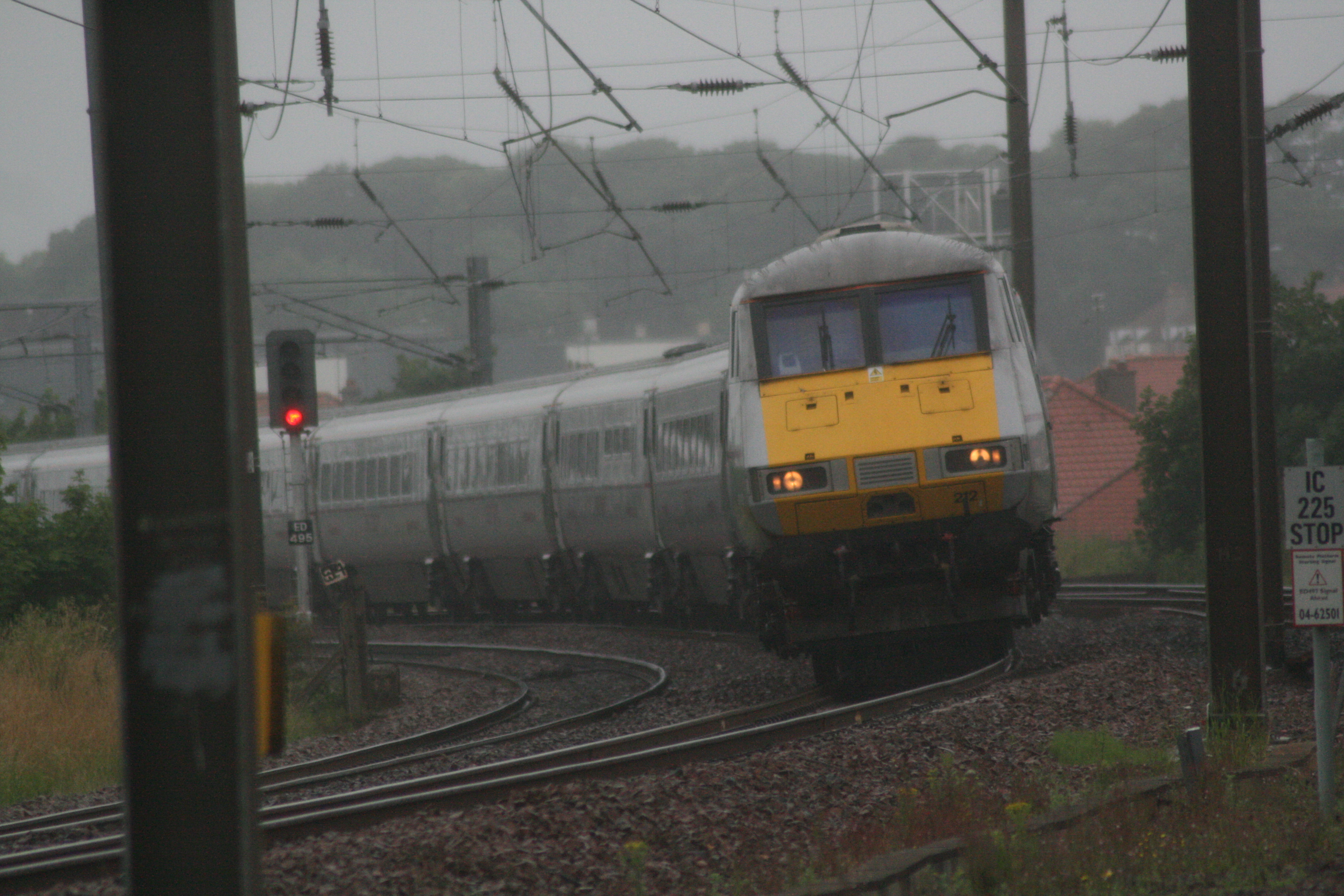 A photograph of an InterCity 225 illustrating the effects of superelevated railway track at Dunbar railway station in Scotland.